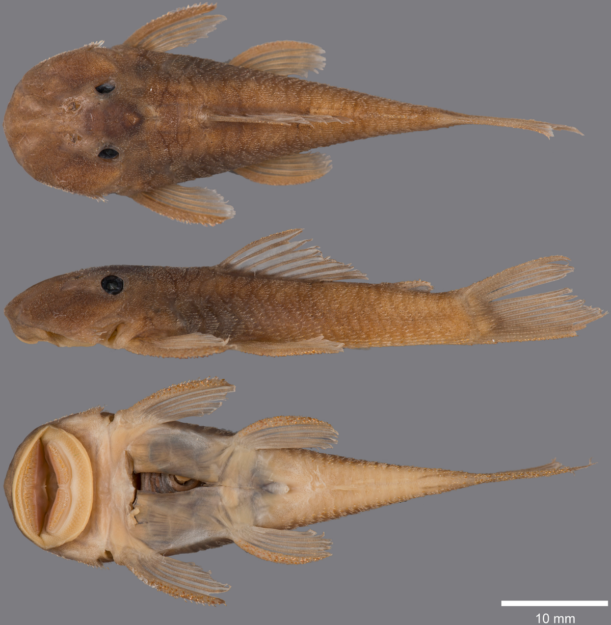 'Fig 12. Guyanancistrus nassauensis. MHNG 2679.100, holotype, 42.0 mm SL; Suriname: Sipaliwini: Paramaka Creek, Nassau Mountains.